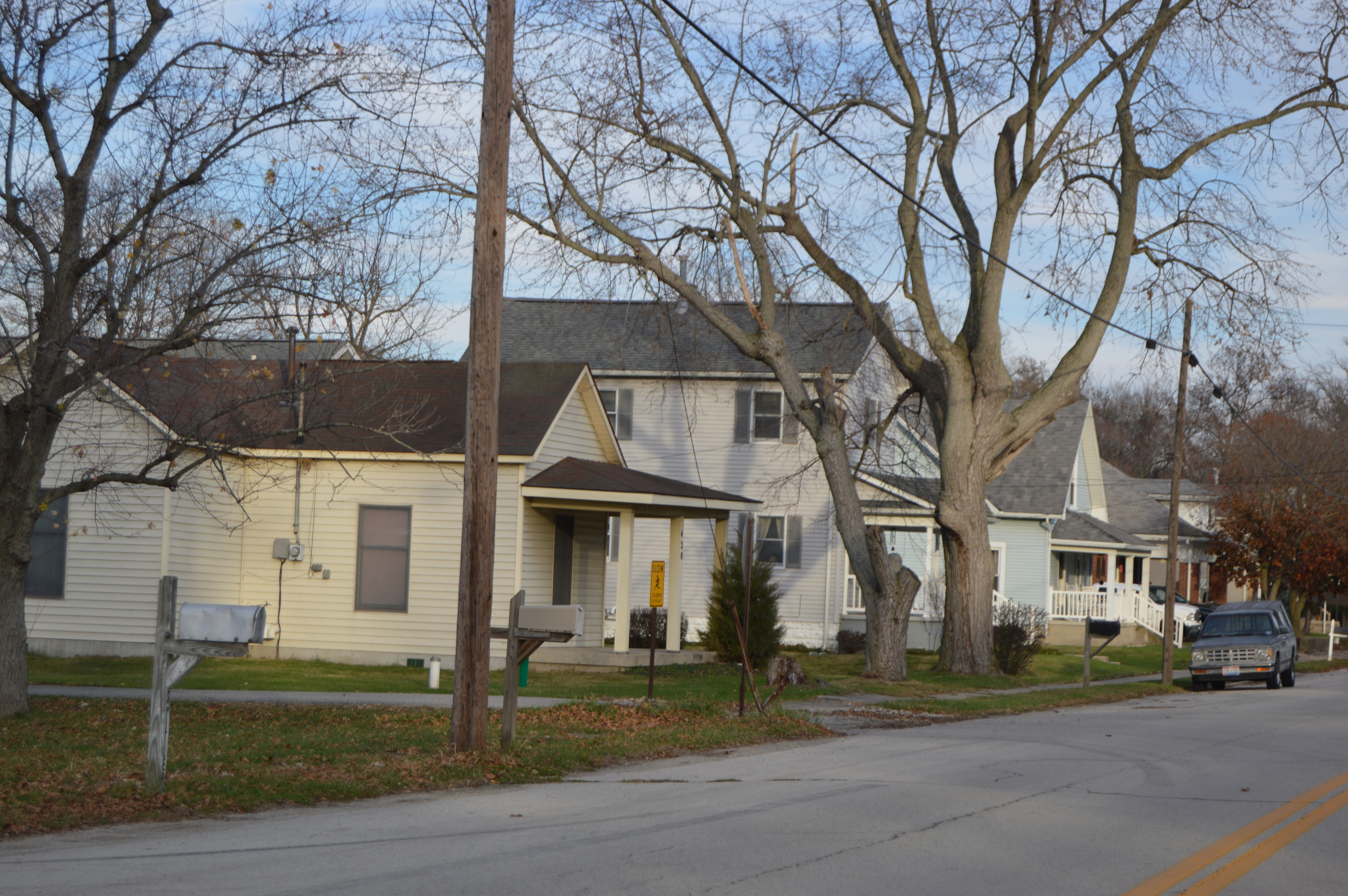 Houses on the northern side of North Street (State Route 722) west of the Main Street intersection in Gordon, Ohio, United States.